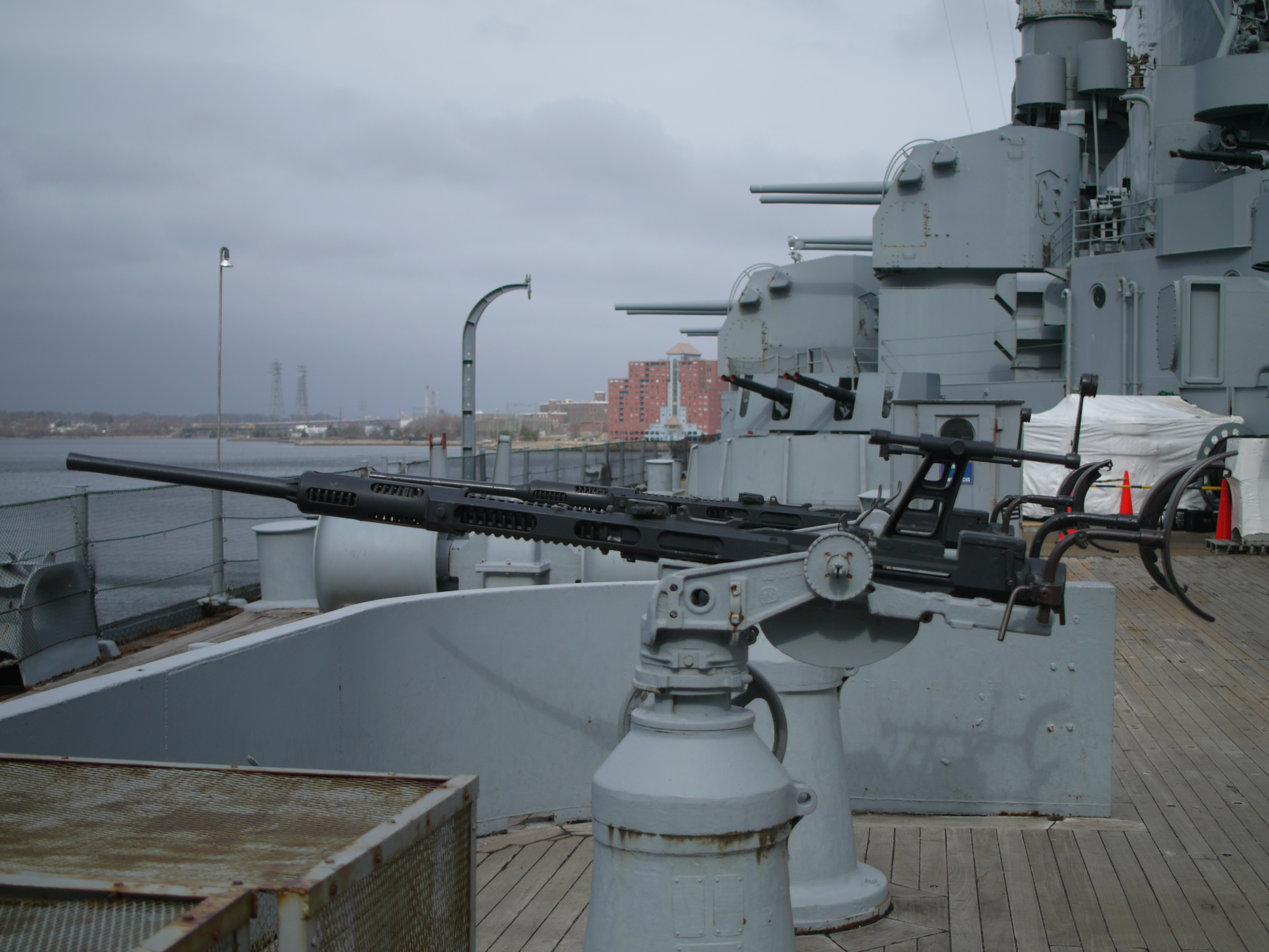 These are the 20mm Oerlikons that are dotted throughout the ship. 20mm is nearly 1" diameter.